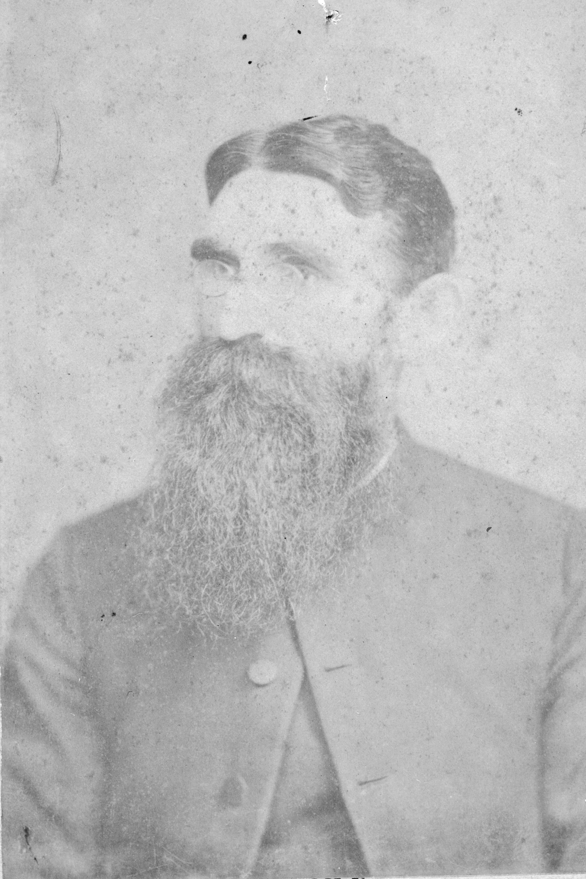 Folder 23/04: Yarrabah photographs, ca. 1892-ca. 1910